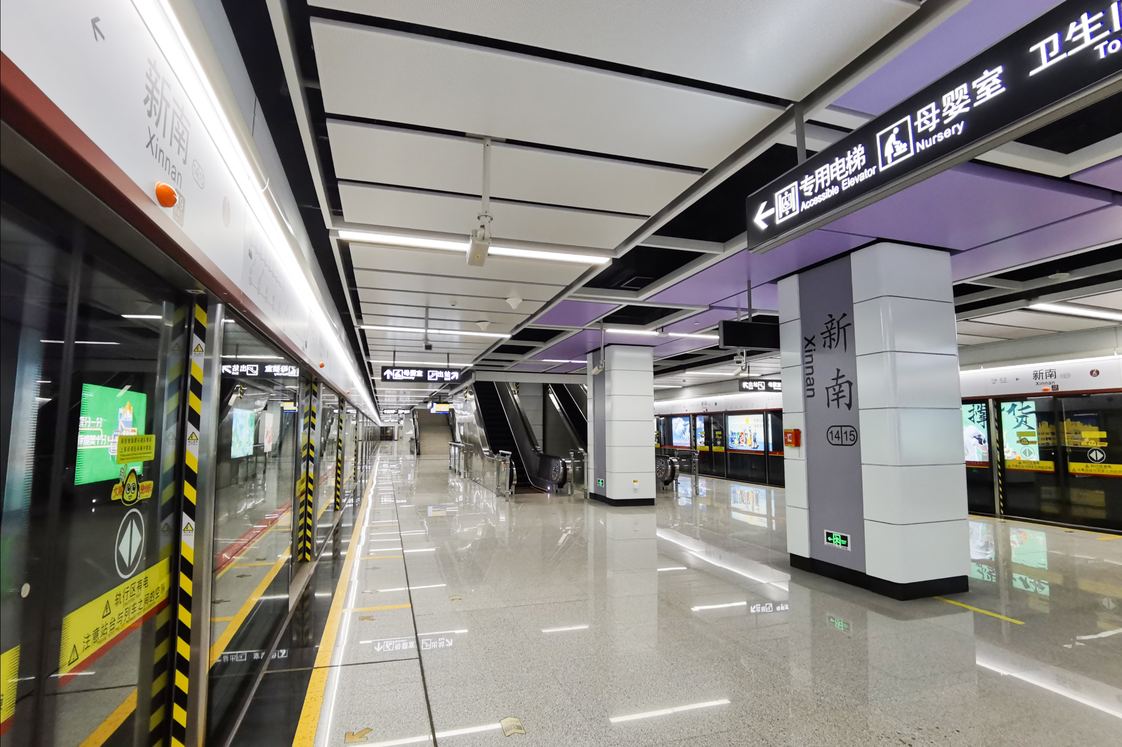 广州地铁新南站